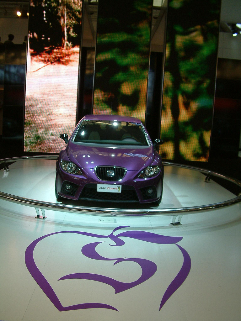 SEAT Leon Cupra by Shakira (2)